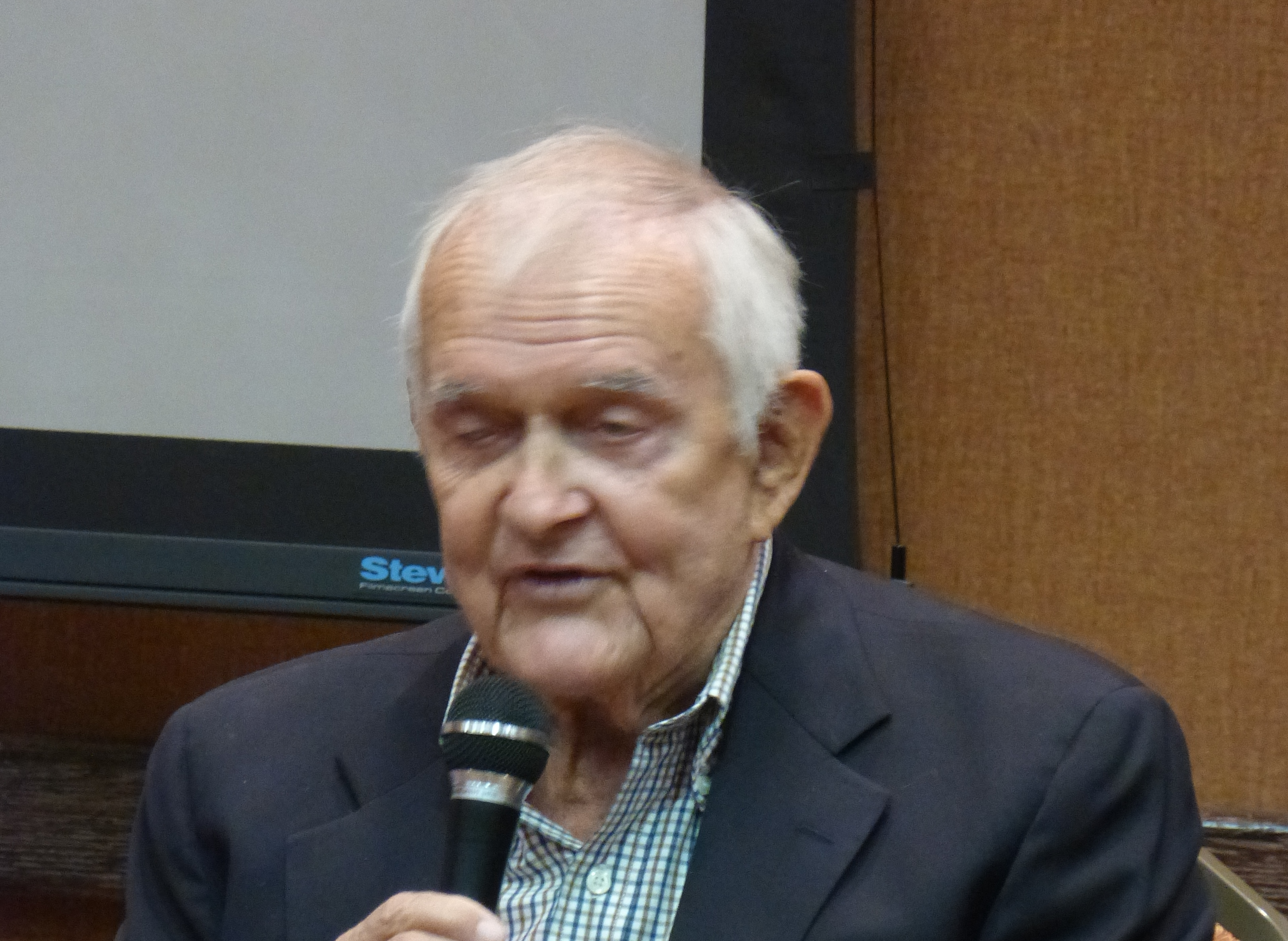 A photo of Tom Hatten